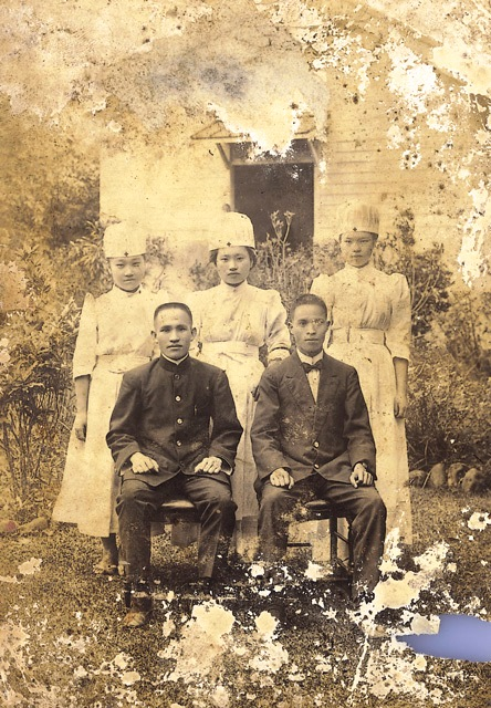 中文（台灣）: 樂信．瓦旦 (1899－1954/4/17) was killed by brutal regime from China in 1954